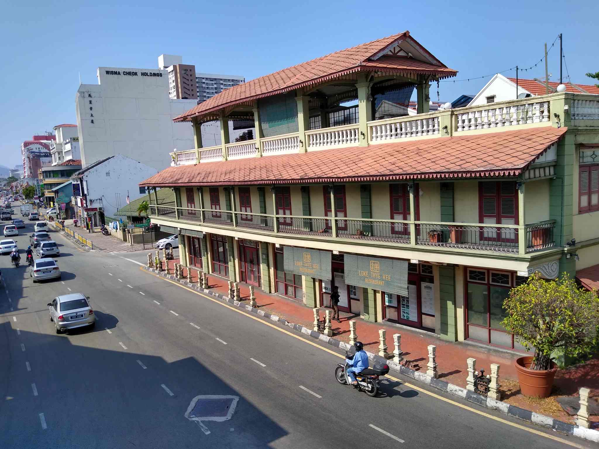 Loke Thye Kee restaurant and the east end of Burmah Road in January 2020.